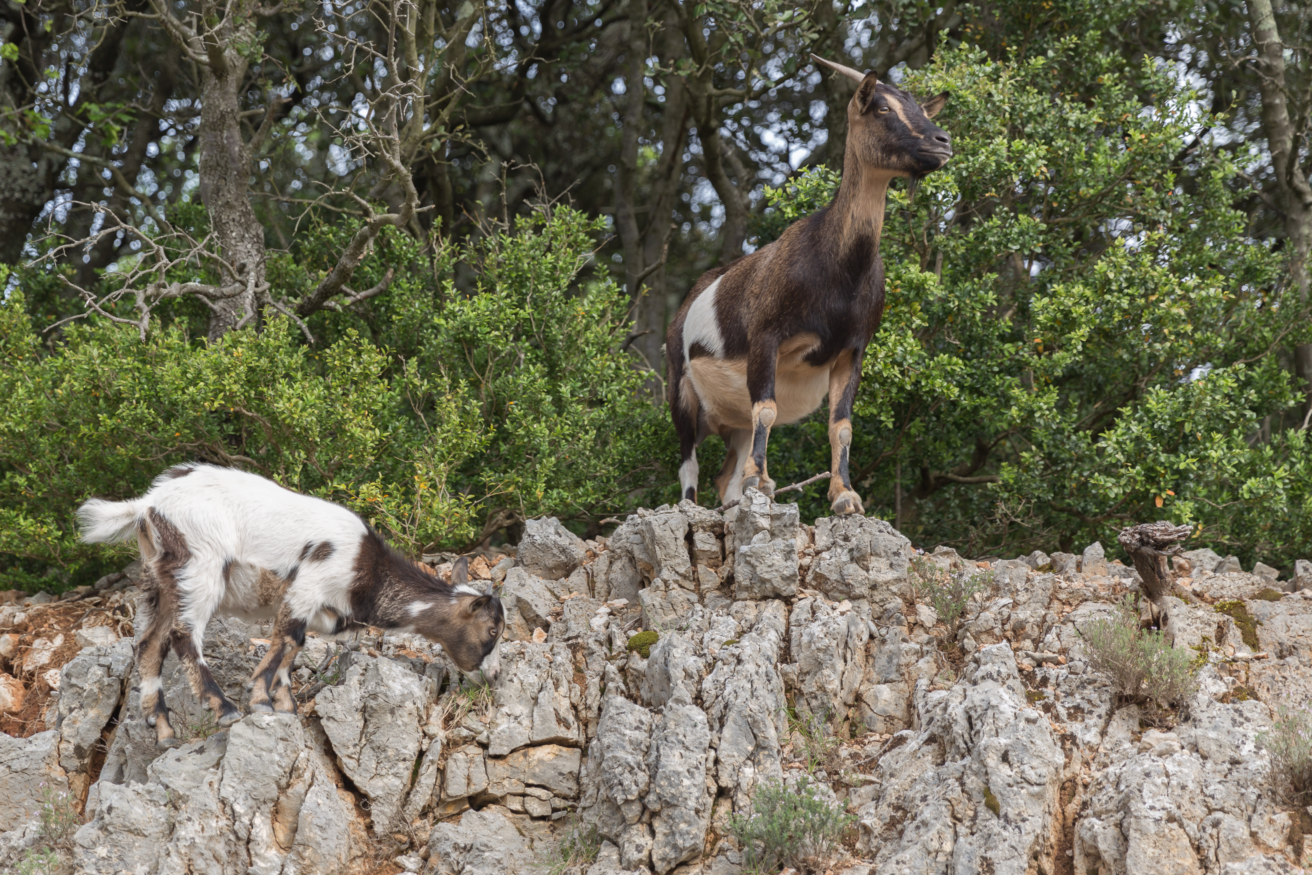 Wild goat in Ardèche